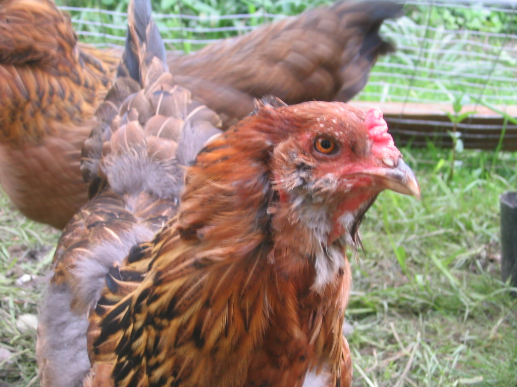 An Ameraucana hen. This hen is on the bottom of the pecking order in the flock, and is consequently has some feather loss caused by the other other hens.